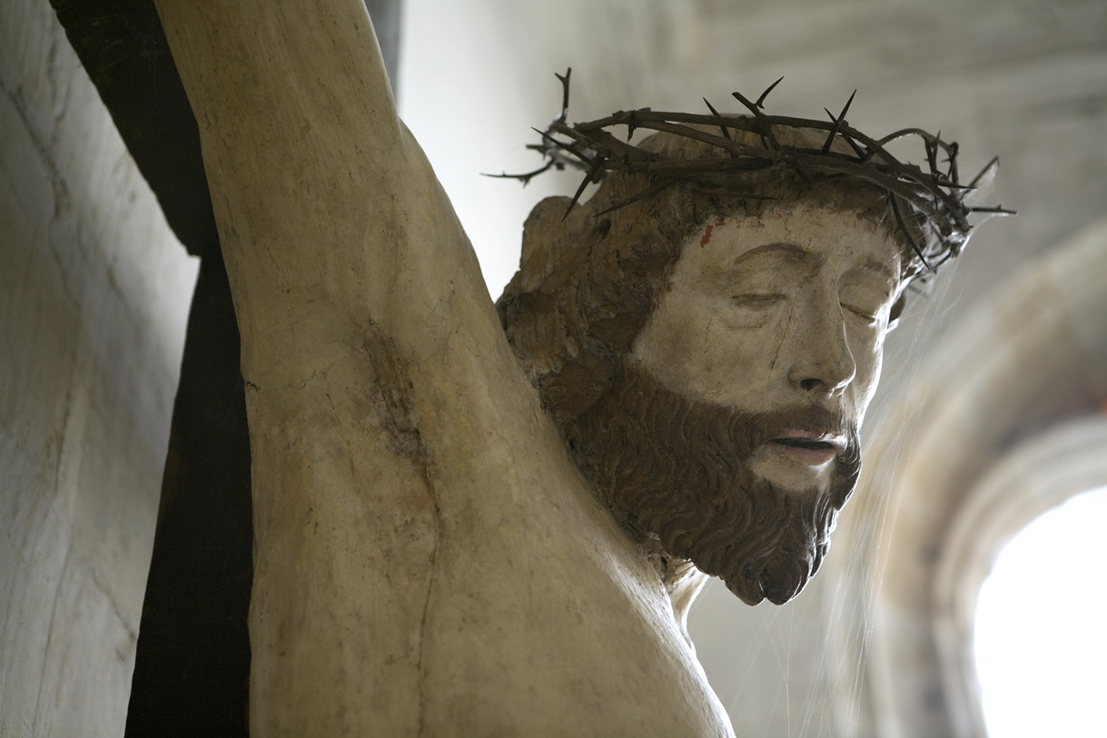 Ligier Richier calvary in Notre Dame church Bar-le-Duc.